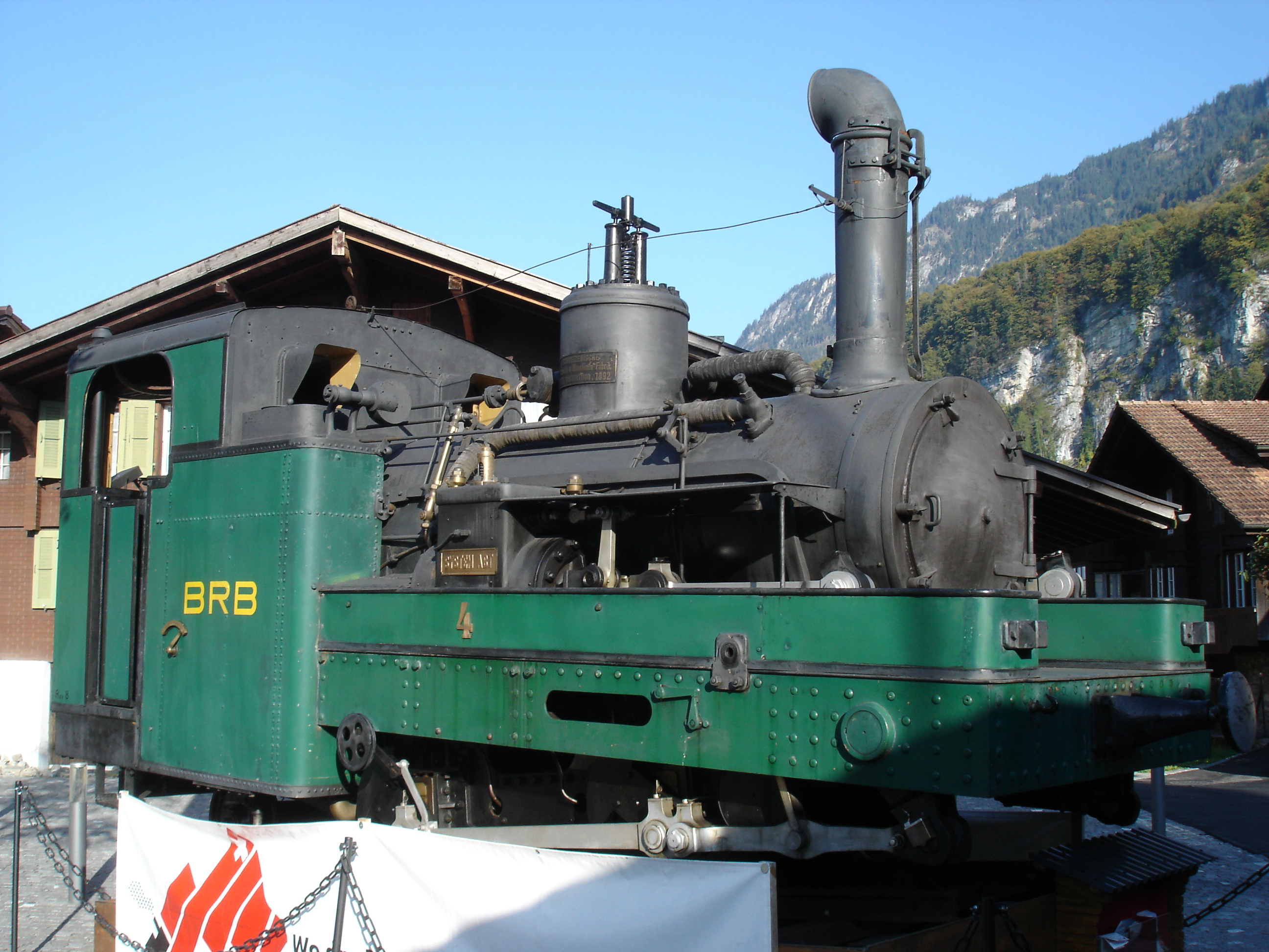 Steam locomotive No. 4 of the Brienz Rothorn Bahn, no longer in service, is "on the road" for advertising purposes, here on the village square Iseltwald.